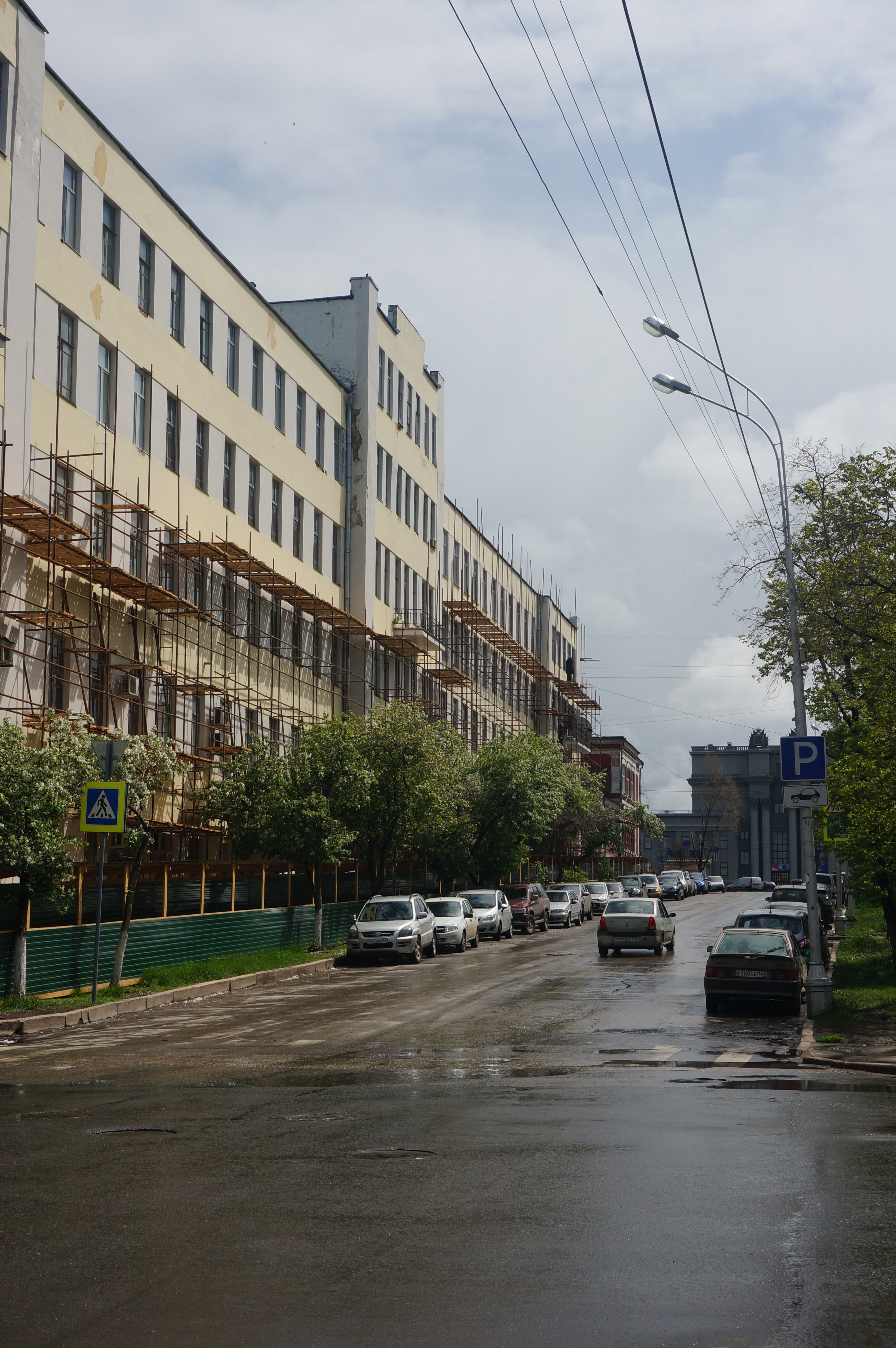 Улица Шостаковича (бывшая Рабочая), Самара